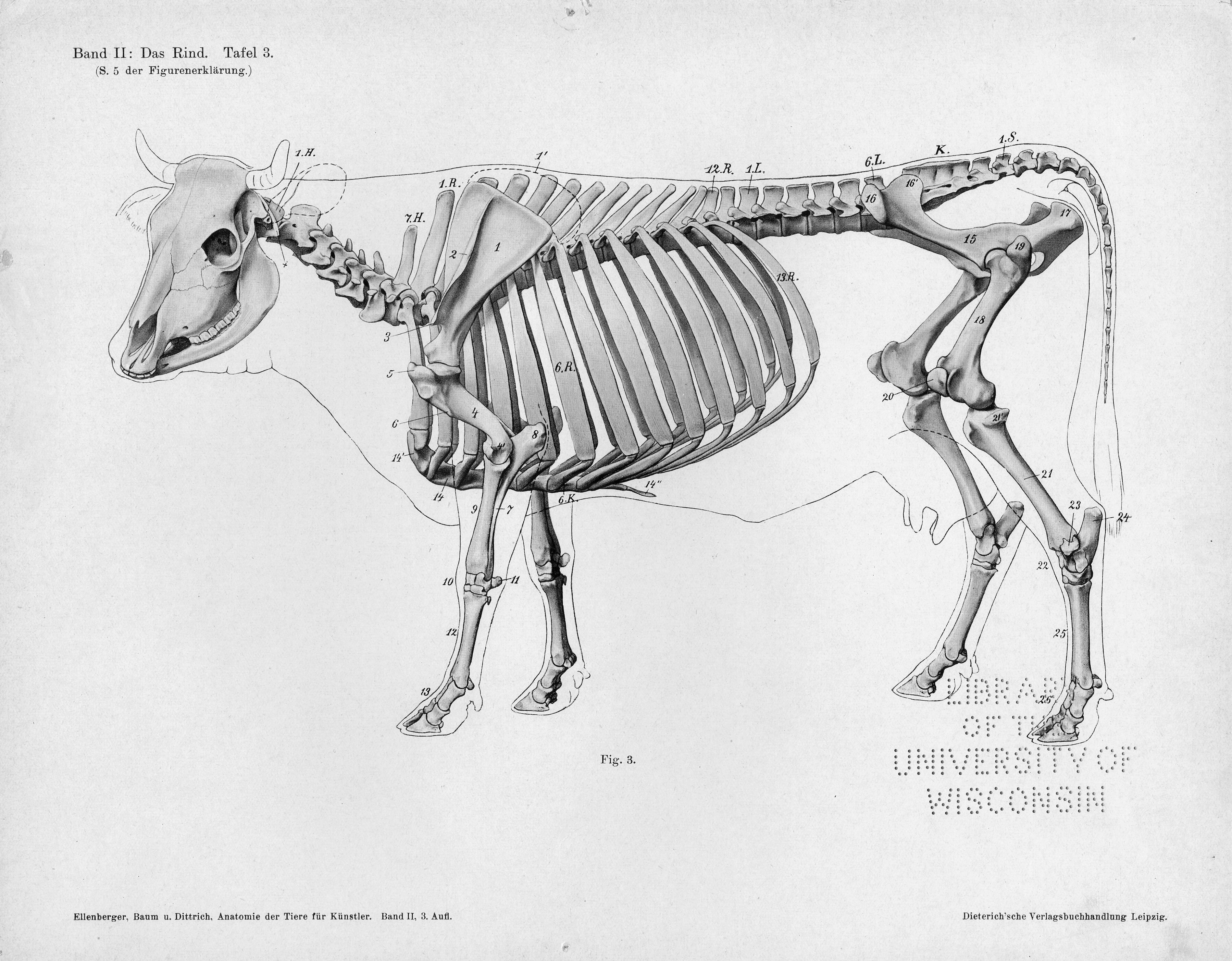 Das Rind, Tafel 3 [Cattle, Plate 3]. Animal anatomical engraving from Handbuch der Anatomie der Tiere für Künstler. Band 2: Das Rind. This is a left lateral view of the skeleton of a whole cow, highlighting palpable landmarks and certain bones.